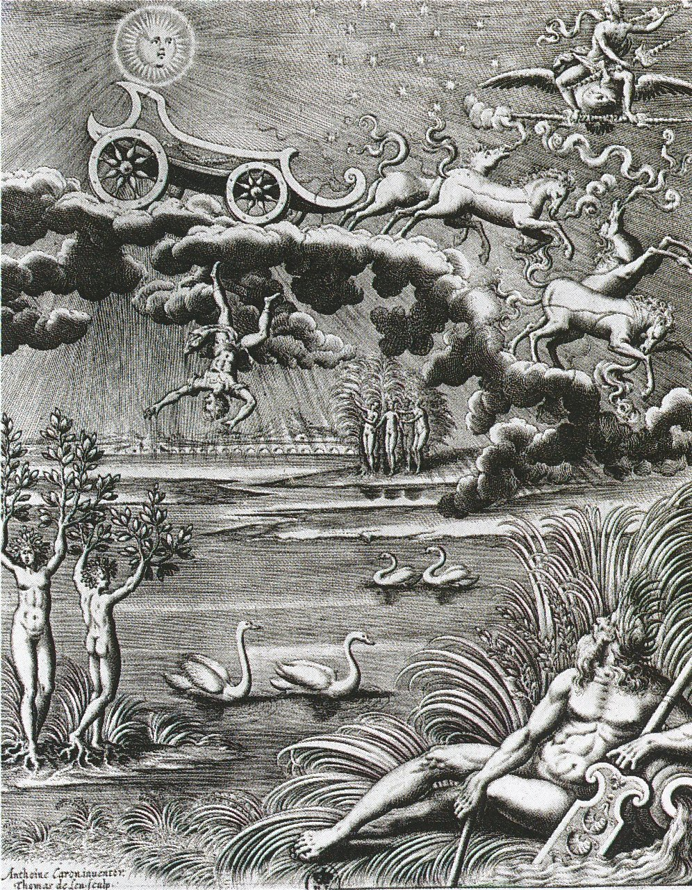 Phaethon, from Imagines by Philostratus. Engraving, Bibliothèque Nationale de France (Est. Ed. 11, rés. fol. 82), Paris.